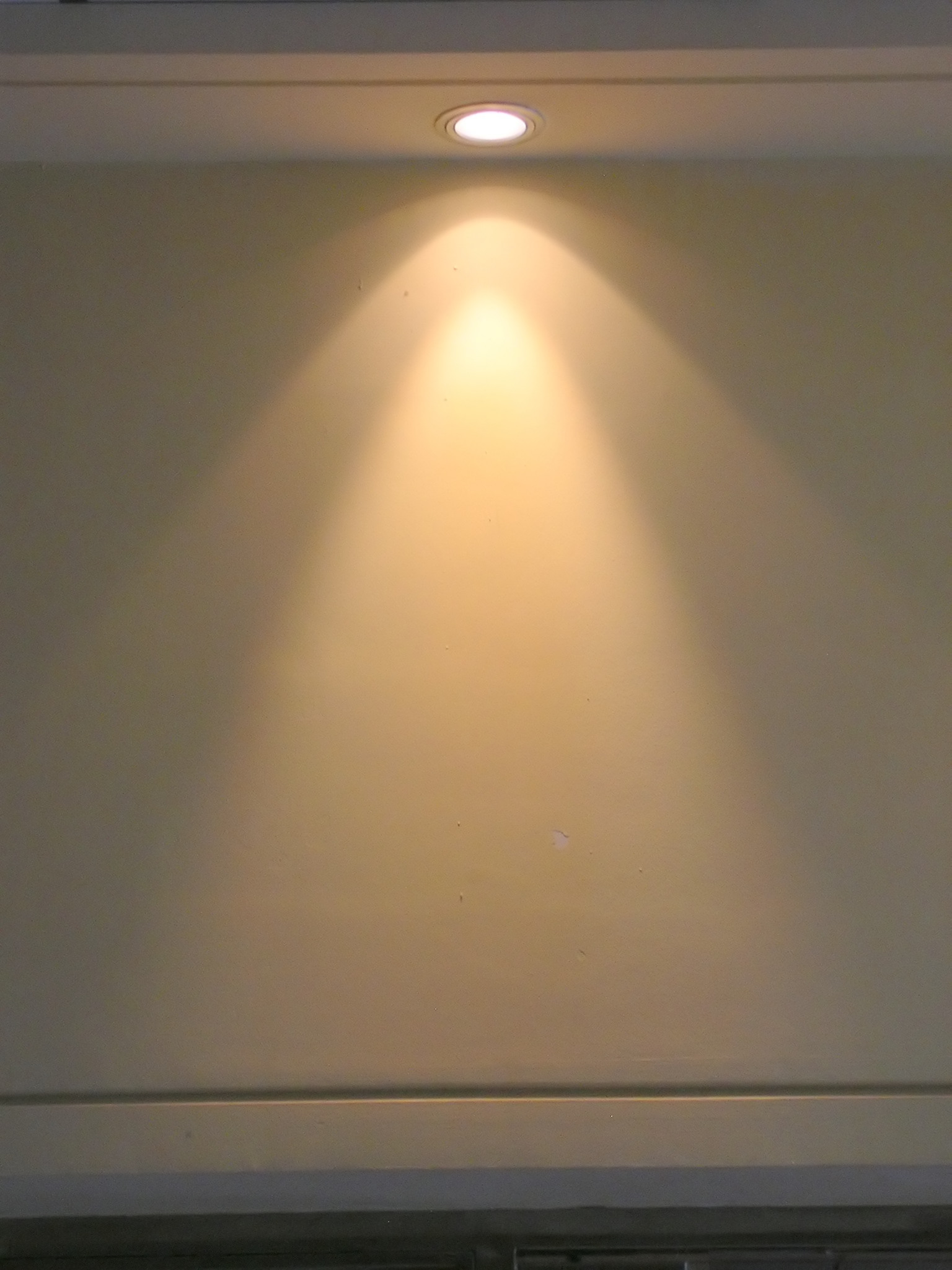 Three cones of light of different widths and intensities, generated by a downwards-pointing halogen lamp and its holder, are drawing three hyperbolic curves on a nearby vertical wall.